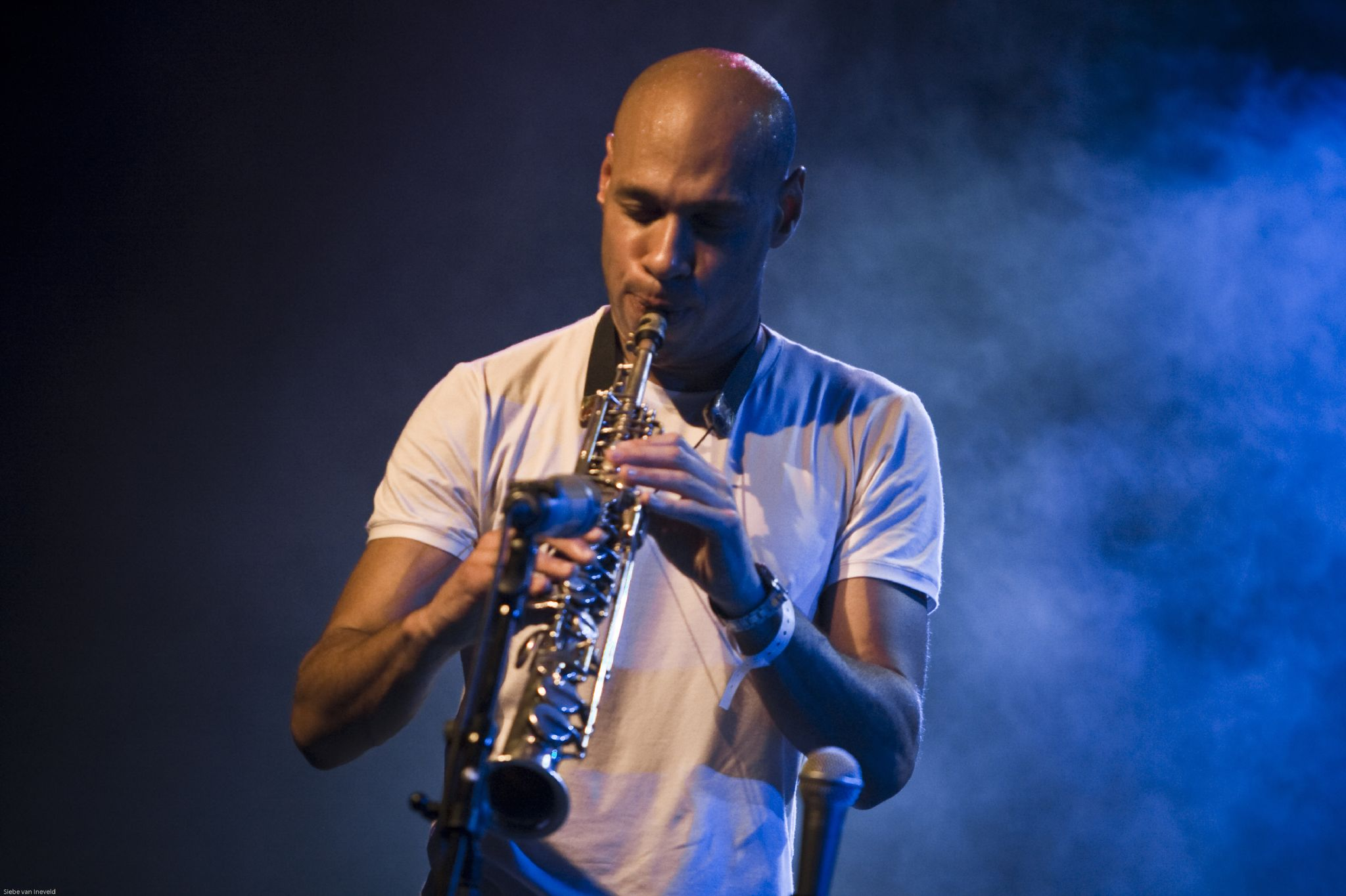 Joshua Redman at the North sea Jazz Festival of 2007